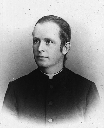 Eric Wasmann